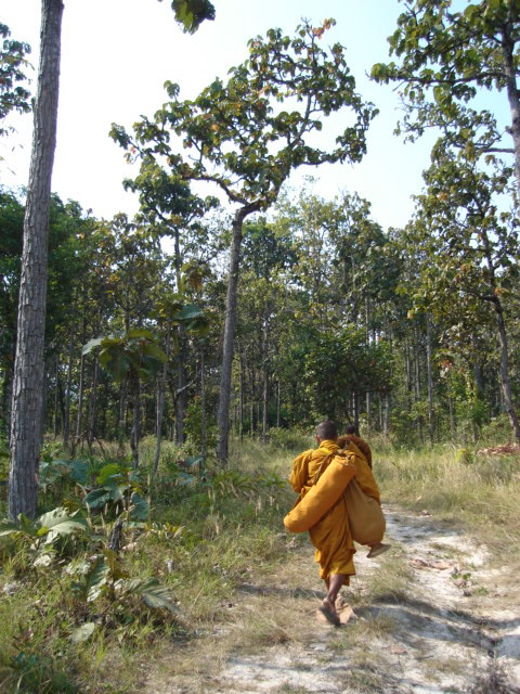 Buddhist monks in Phu Phan, Sakon Nakhon, Thailand Location: Sakon Nakhon, Thailand.